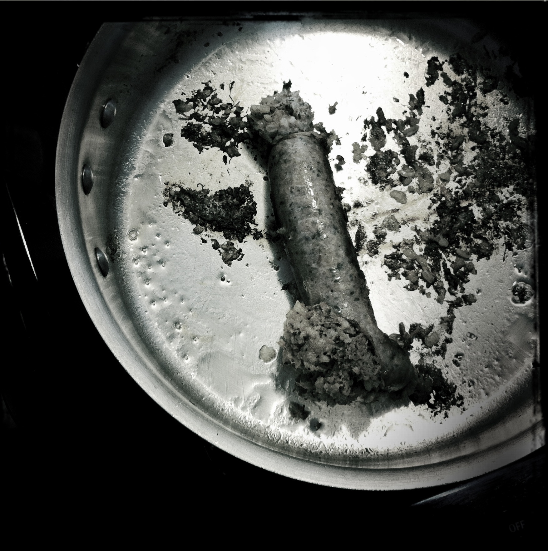 Pan-fried Cajun Boudin